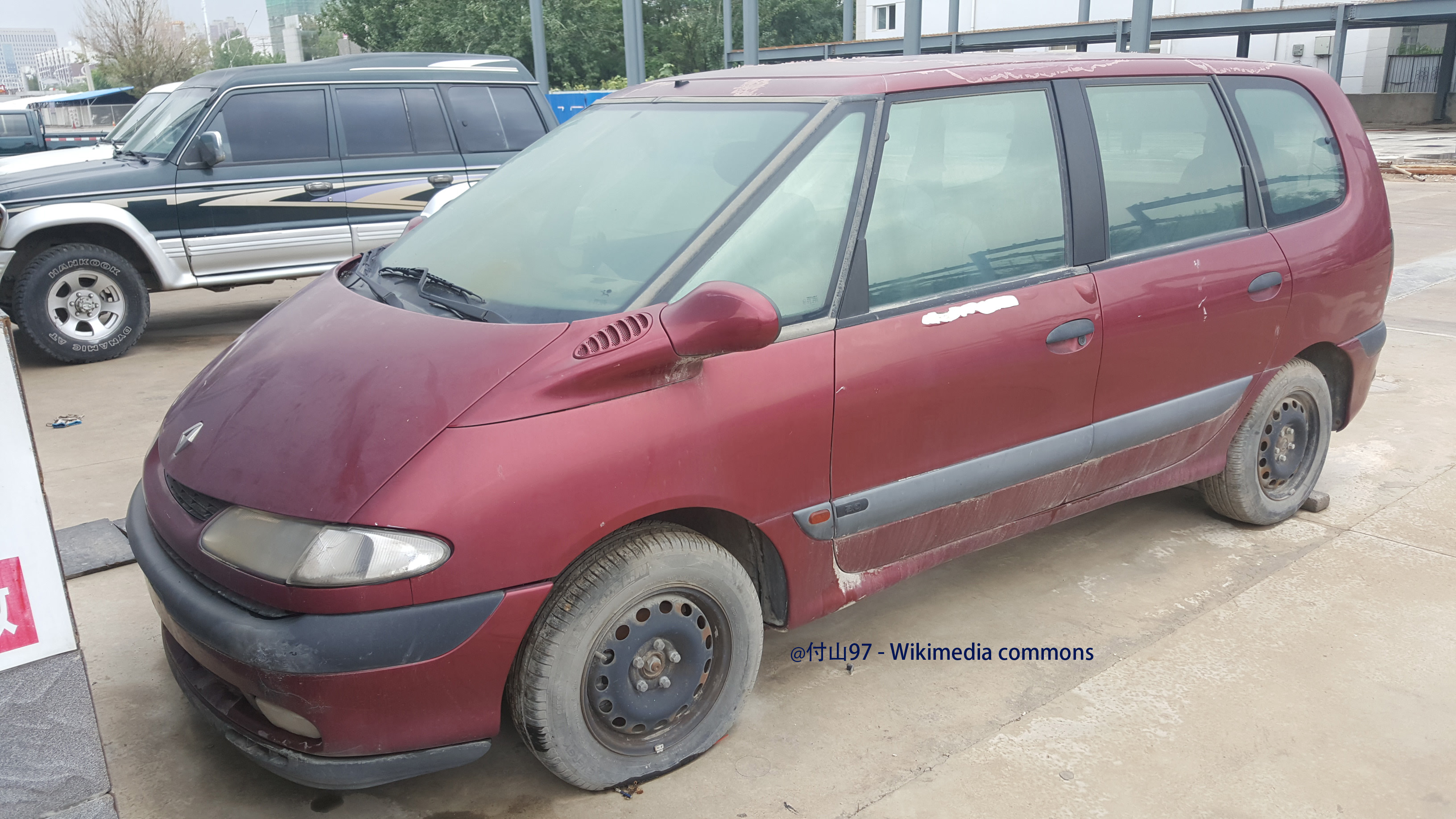 Front left view of Sanjiang Renault Espace